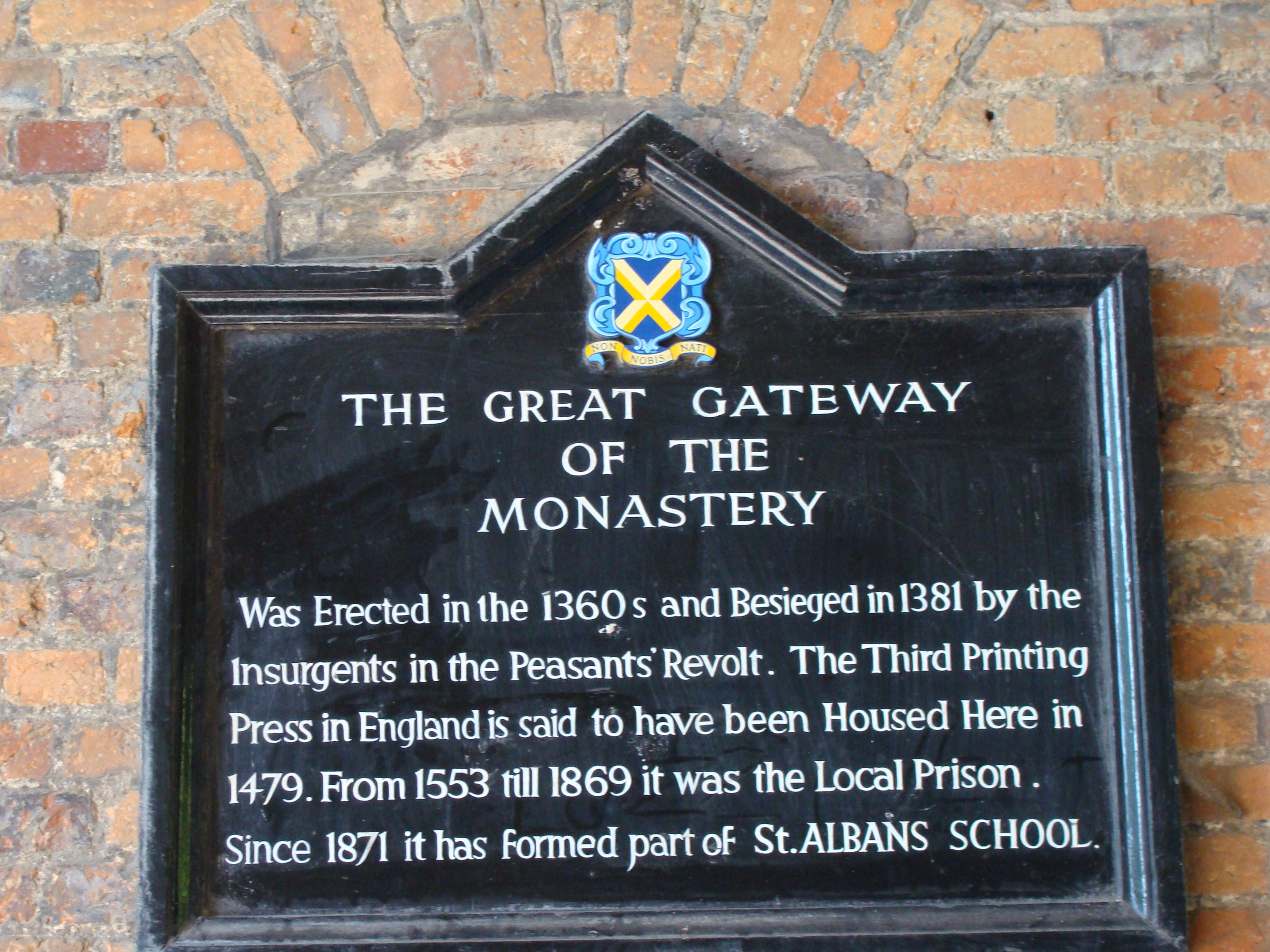 Information sign at the abbey gate in St Albans, Hertfordshire, England.